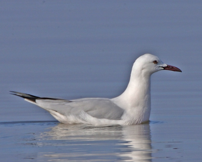 Slender-billed Gull, adult plumage, Kahk, Al Fayyum, Egypt, 29°26'43"N 30°39'46"E.